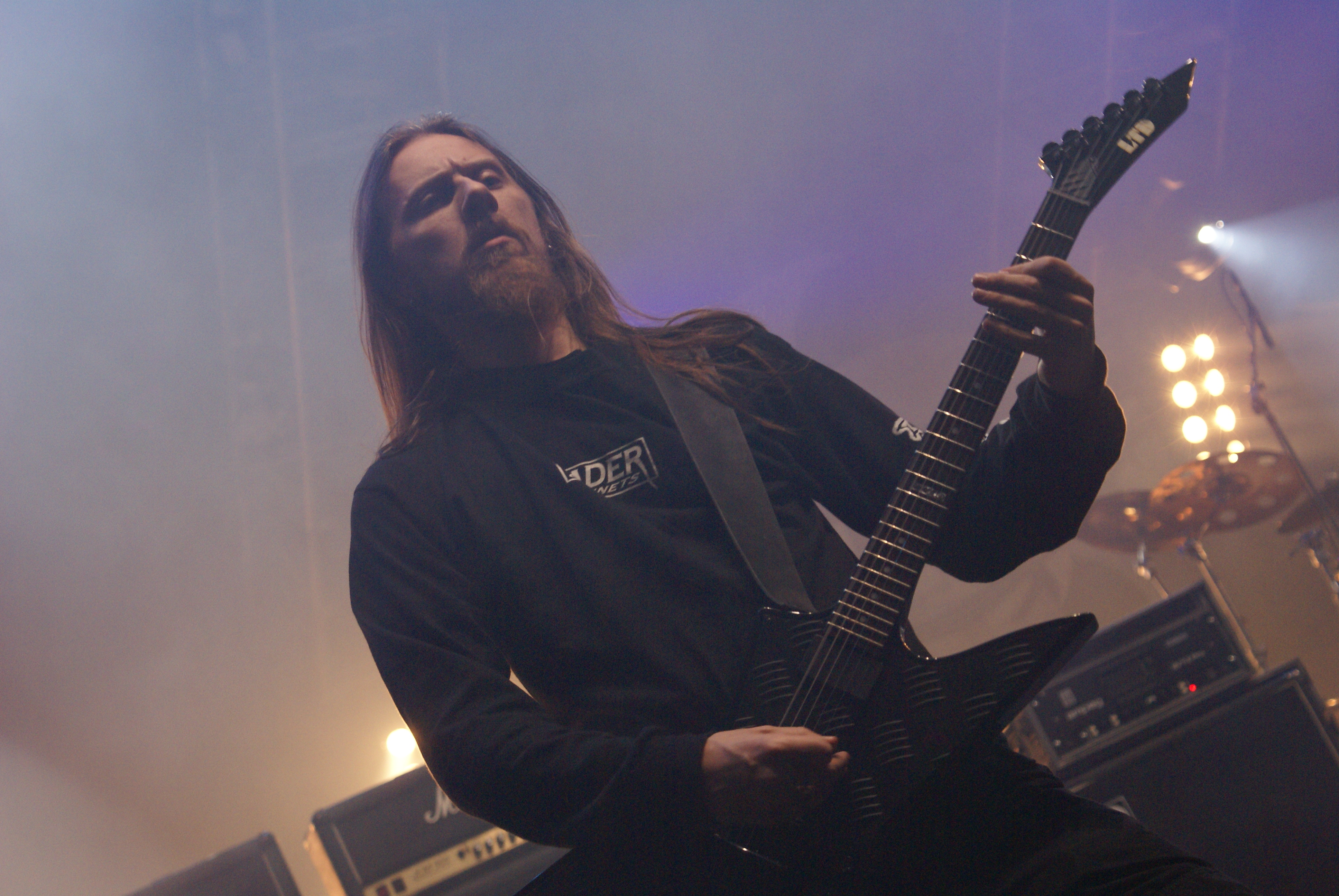 Tomas 'Samoth' Haugen from Zyklon during Metalmania 2007 festival